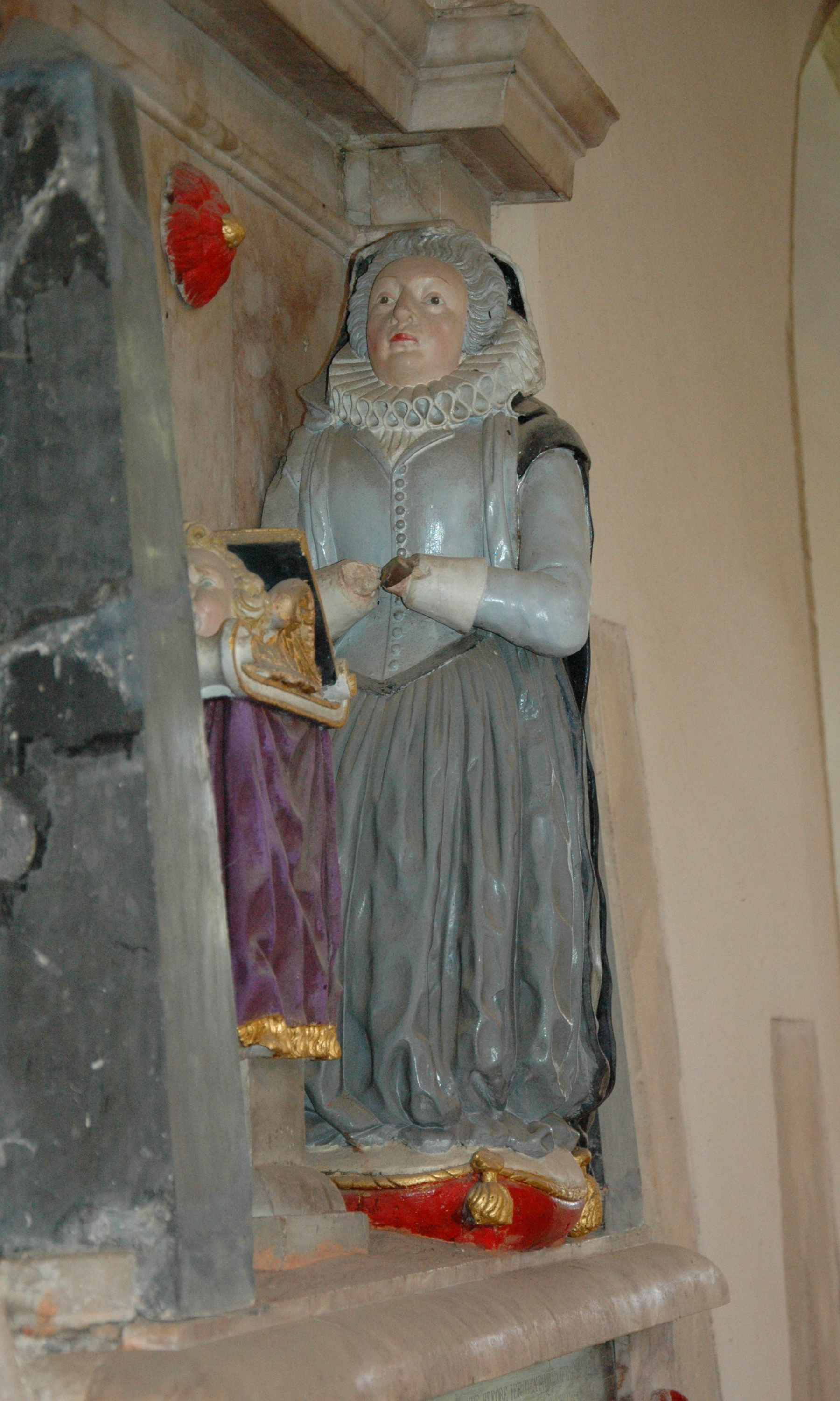 Church of England parish church of Saints Peter and Paul, Aston Rowant, Oxfordshire: detail of monument to Lady Cecil Hobbee, died 1618